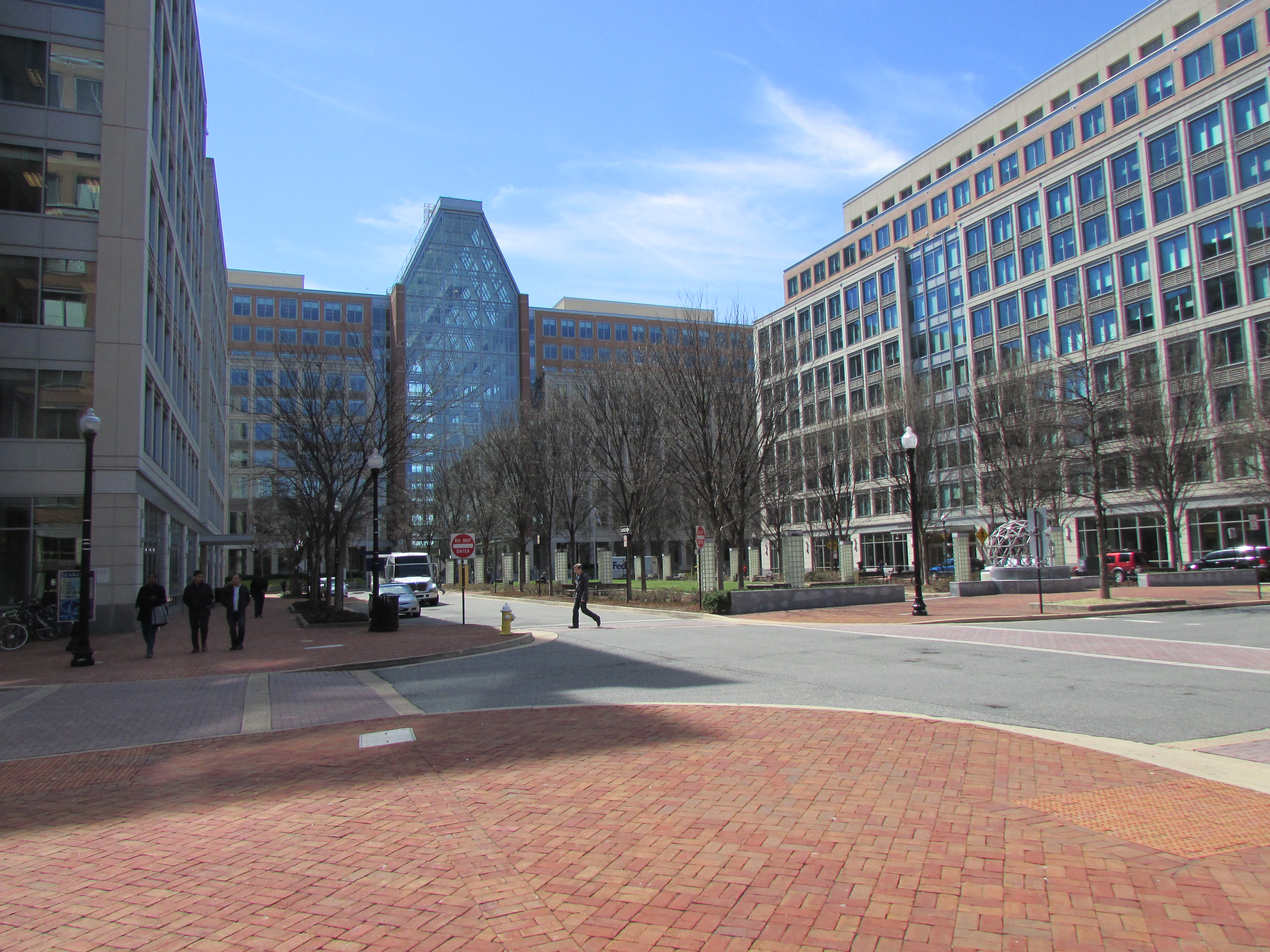 USPTO buildings in Alexandria VA